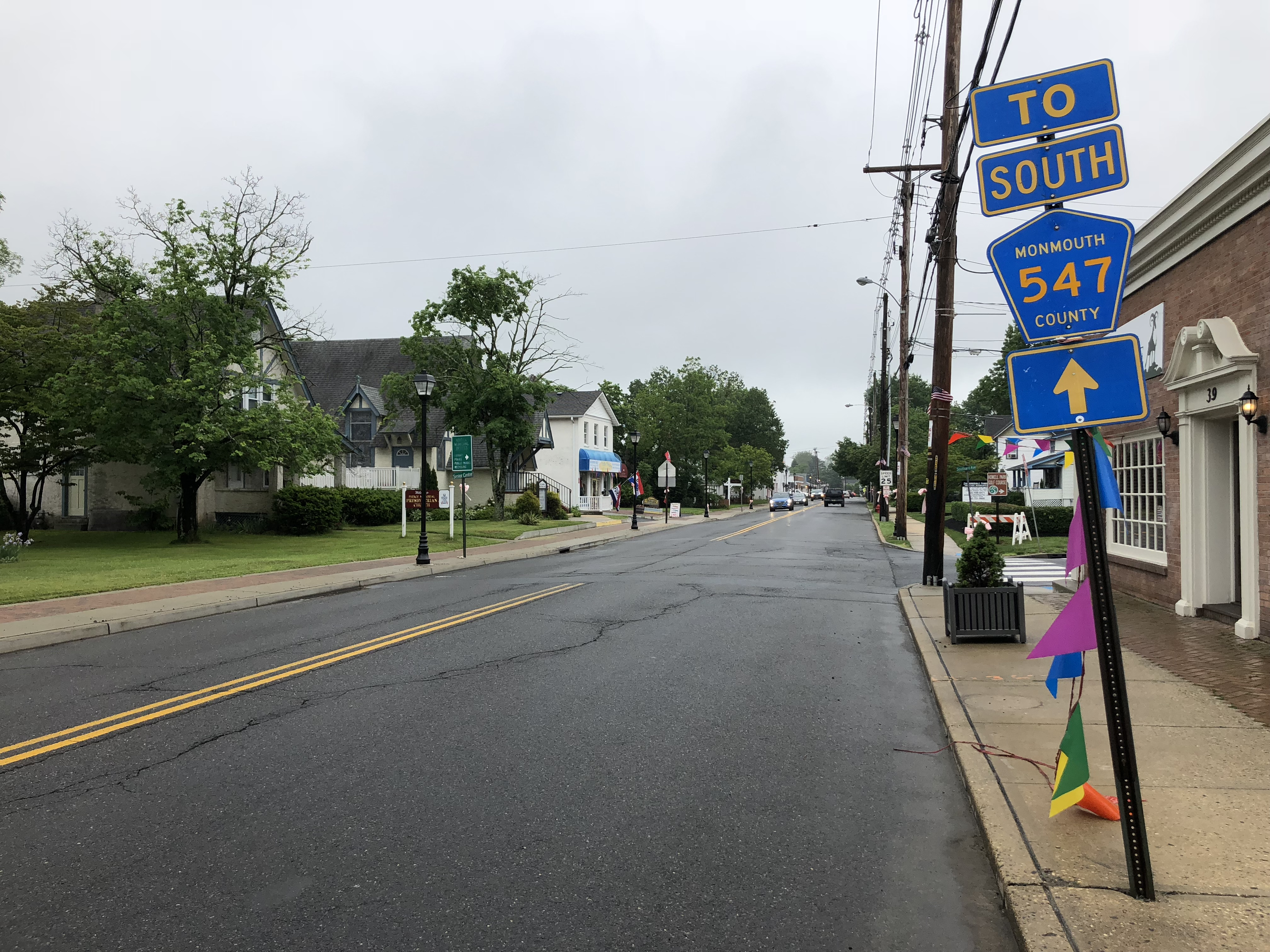 View east along Monmouth County Route 524 and south along Monmouth County Route 547 (Main Street) at Asbury Avenue in Farmingdale, Monmouth County, New Jersey